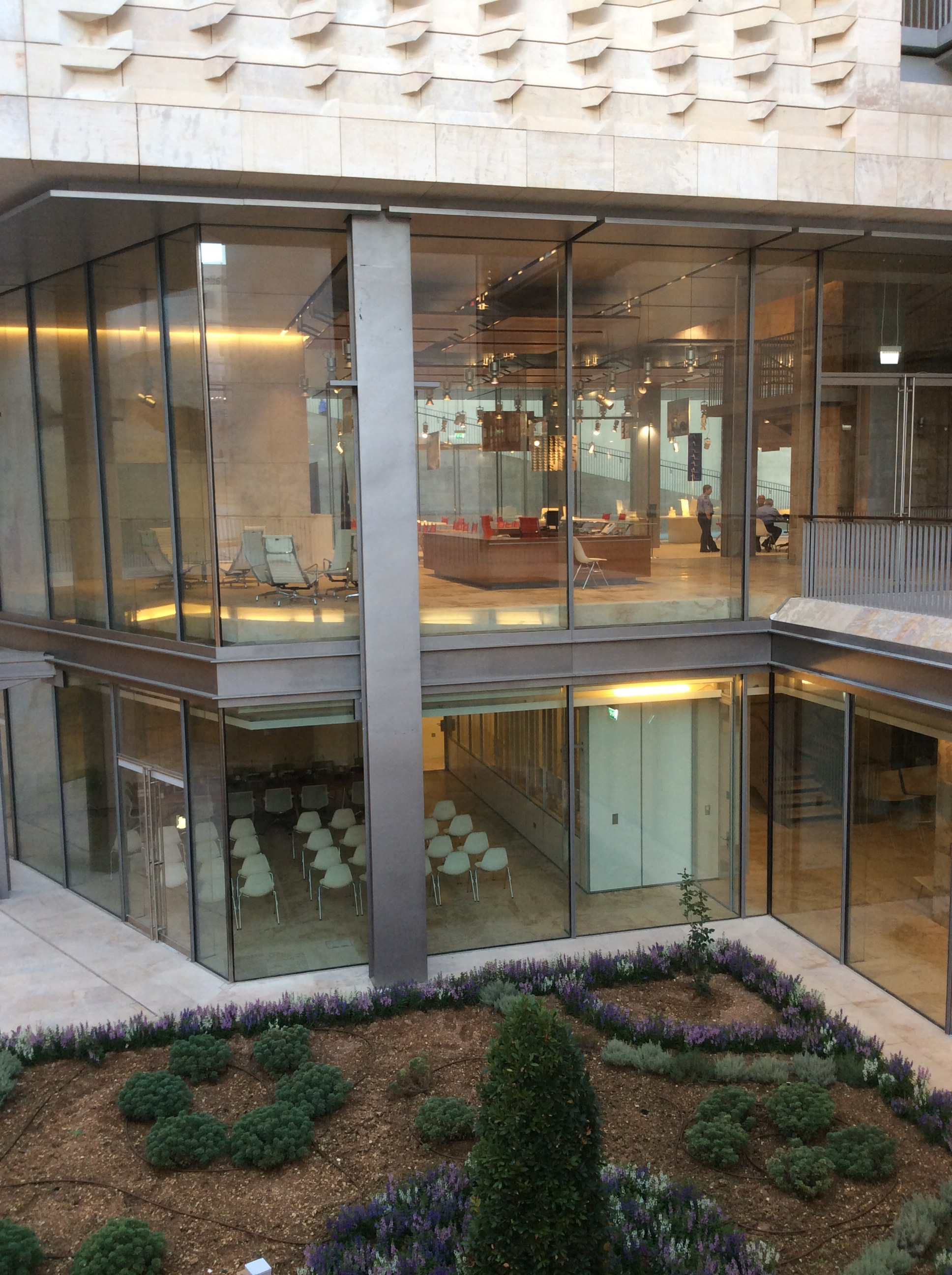 Malta's parliament - offices and garden - external and interior